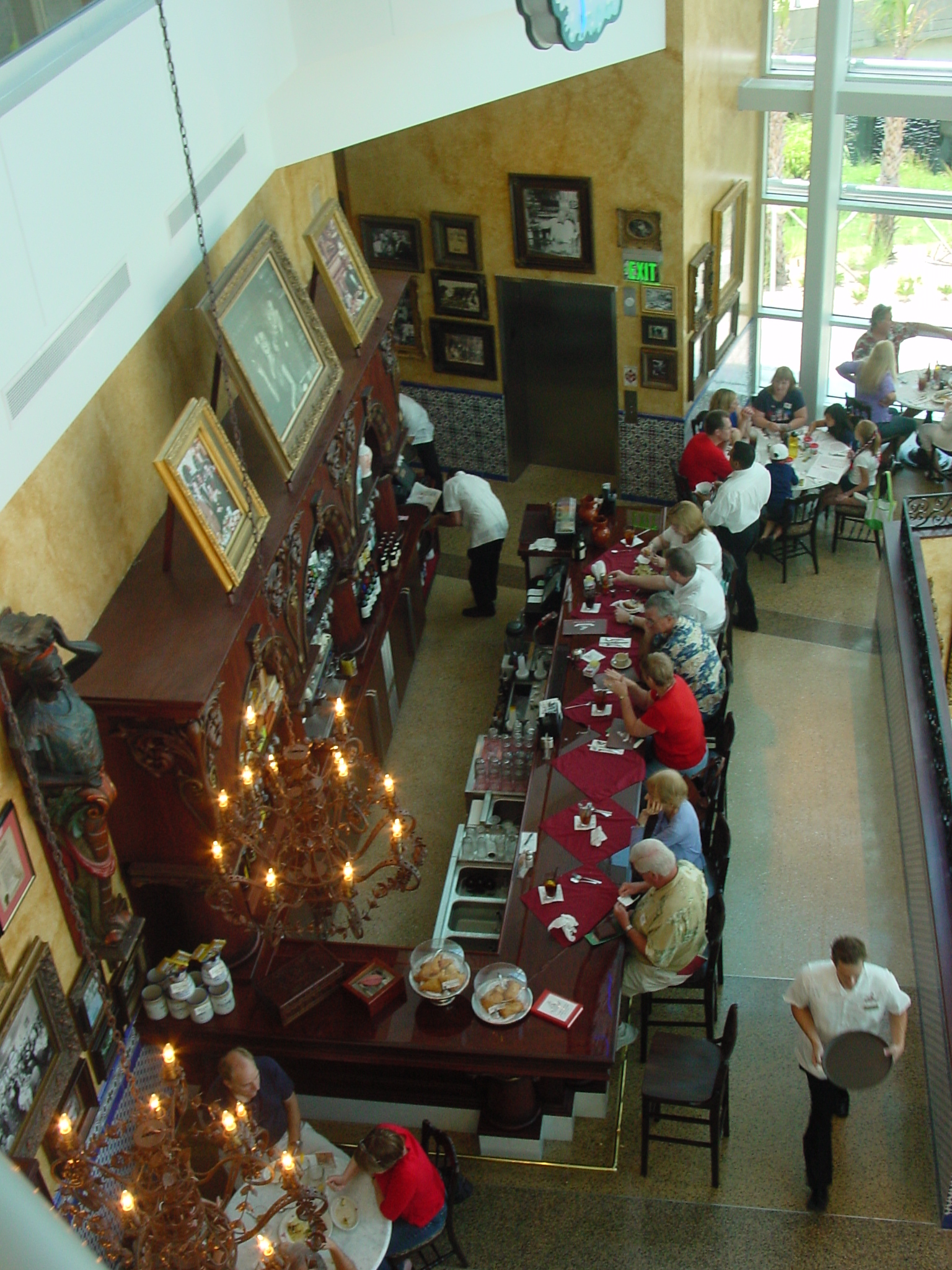 Columbia Cafe as seen from above at the Tampa Bay History Center in Tampa, Florida.